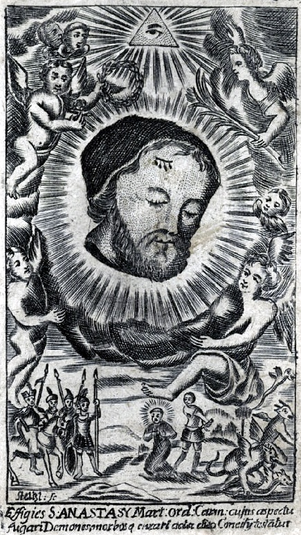 St. Anastasius der Perser (+ 628), Andachtsbild, 1780